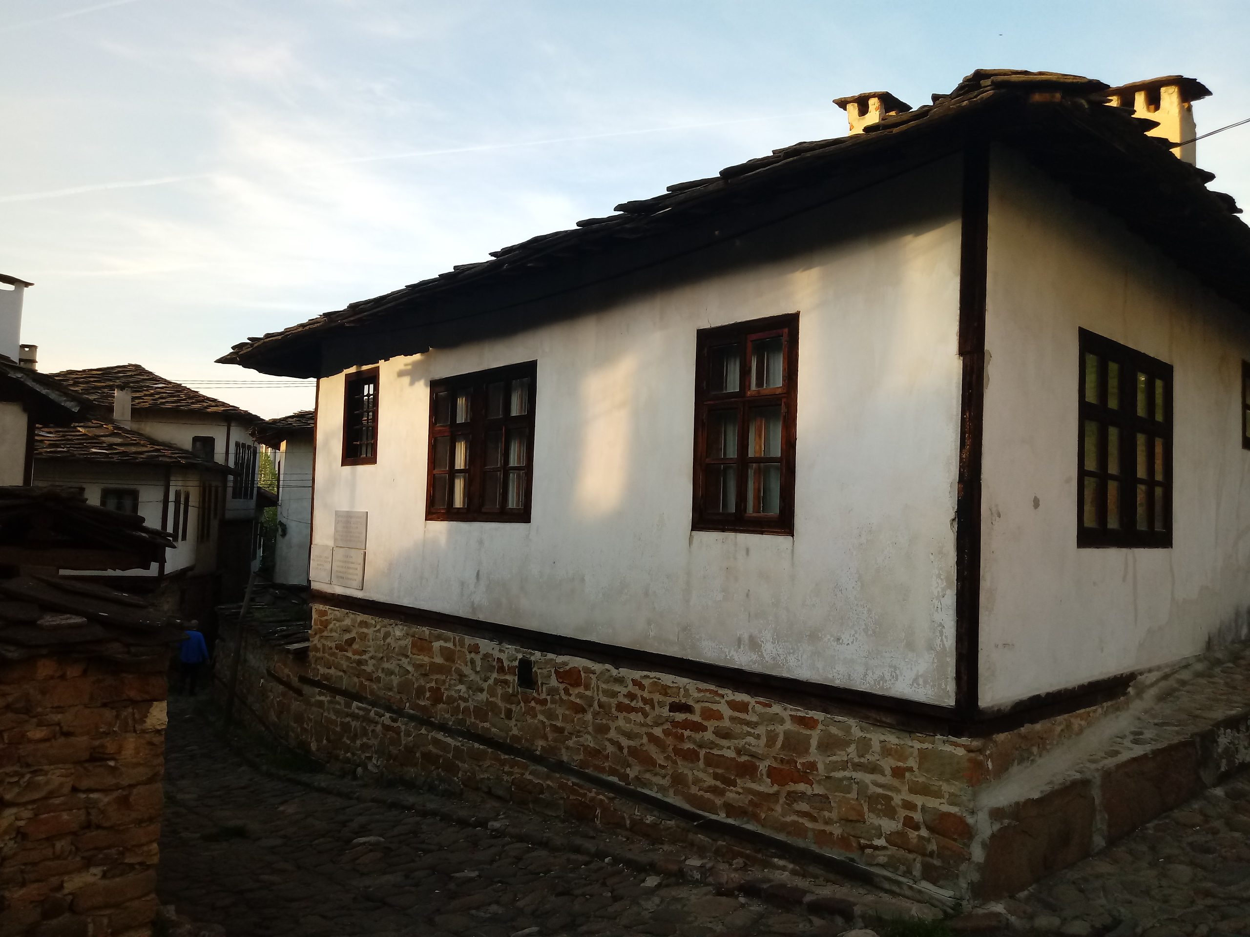 Anastas Ishirkov, Docho Shipkov house with memorial plaques, Lovech